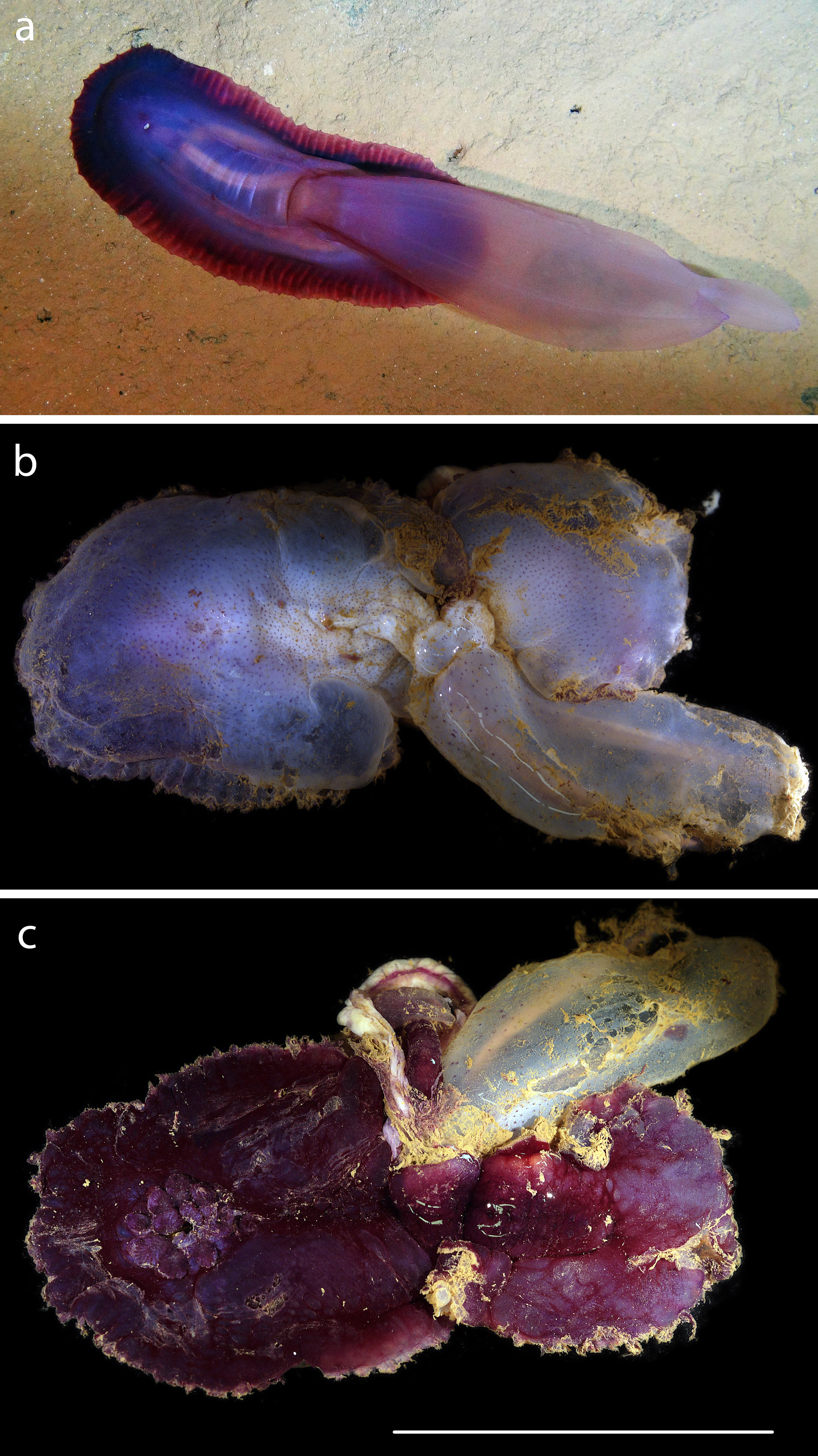 Psychropotes semperiana Théel, 1882. Specimen NHM_220. (a) Live specimen photographed in-situ on the seafloor. (b) Same specimen dorsal view after recovery by ROV imaged underwater in cold-water tank. (c) Ventral view. Scale bars (c) 10cm.